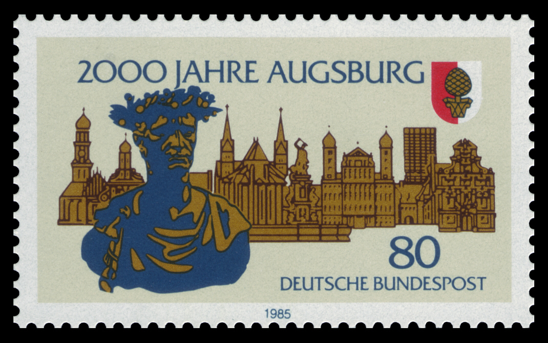 2000 years of Augsburg